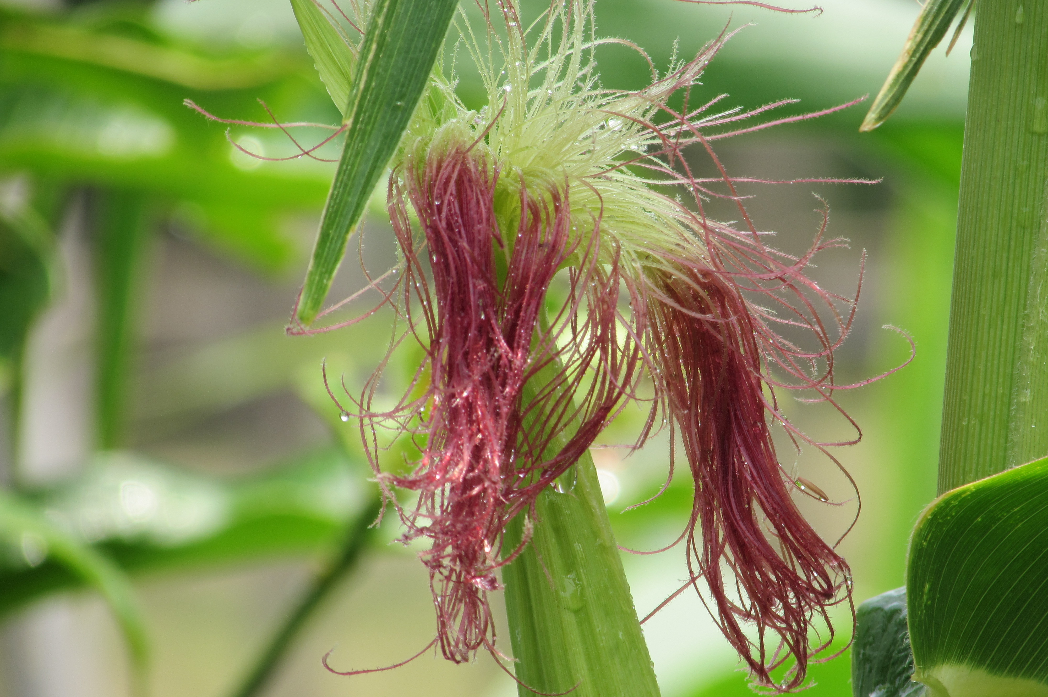 Maize with Red hair